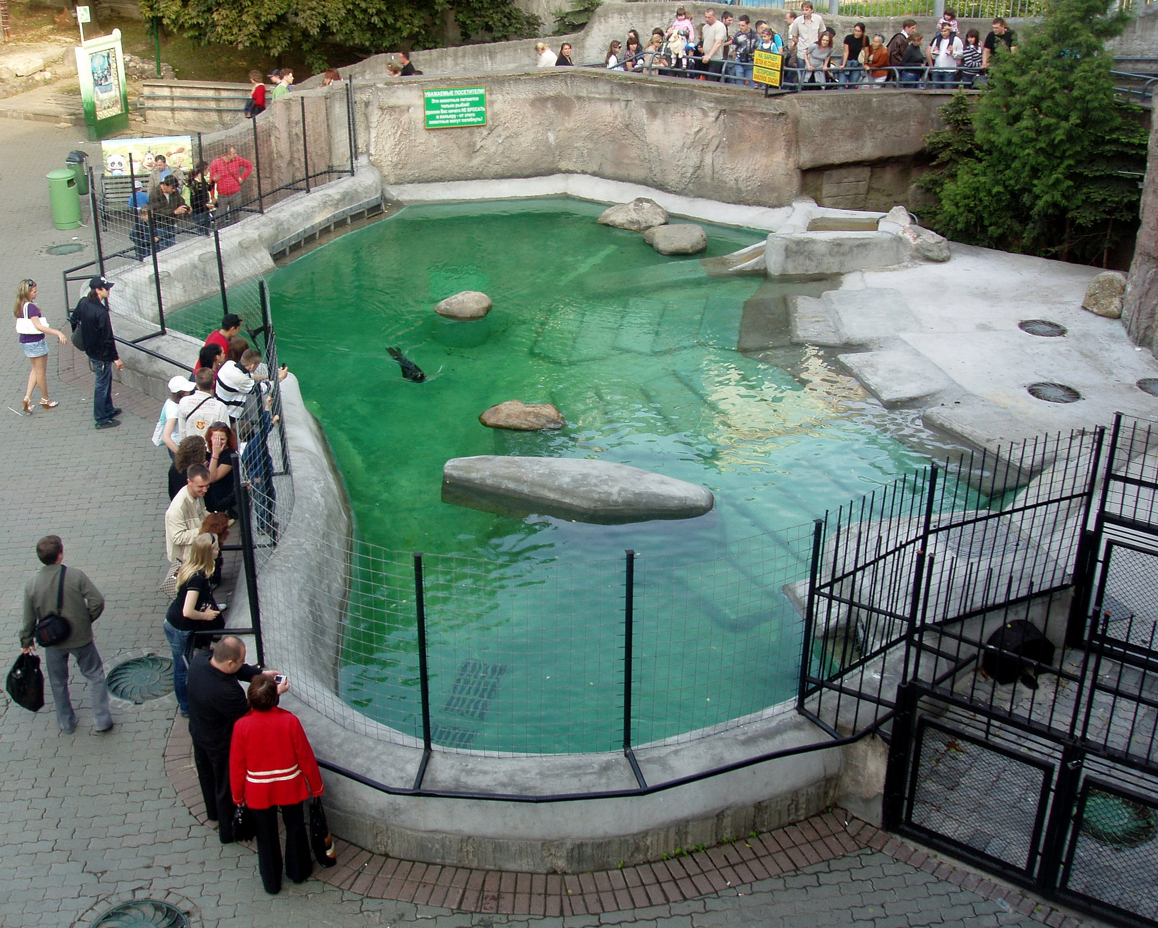 Sea lion's pool (Moscow zoo)